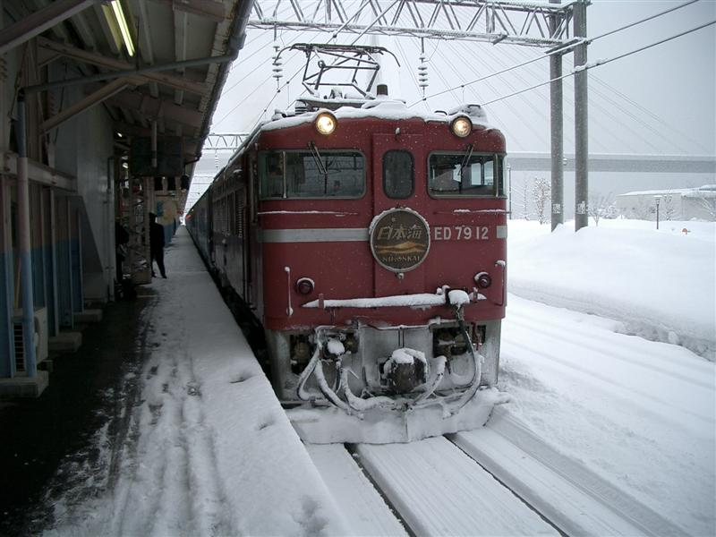 JR Hokkaido Class ED79 electric locomotive ED79 12 at Aomori Station on the Nihonkai No. 1 overnight sleeper service to Sapporo